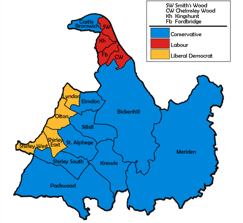 Ward map of Solihull Council with political colouring for the 2003 election.